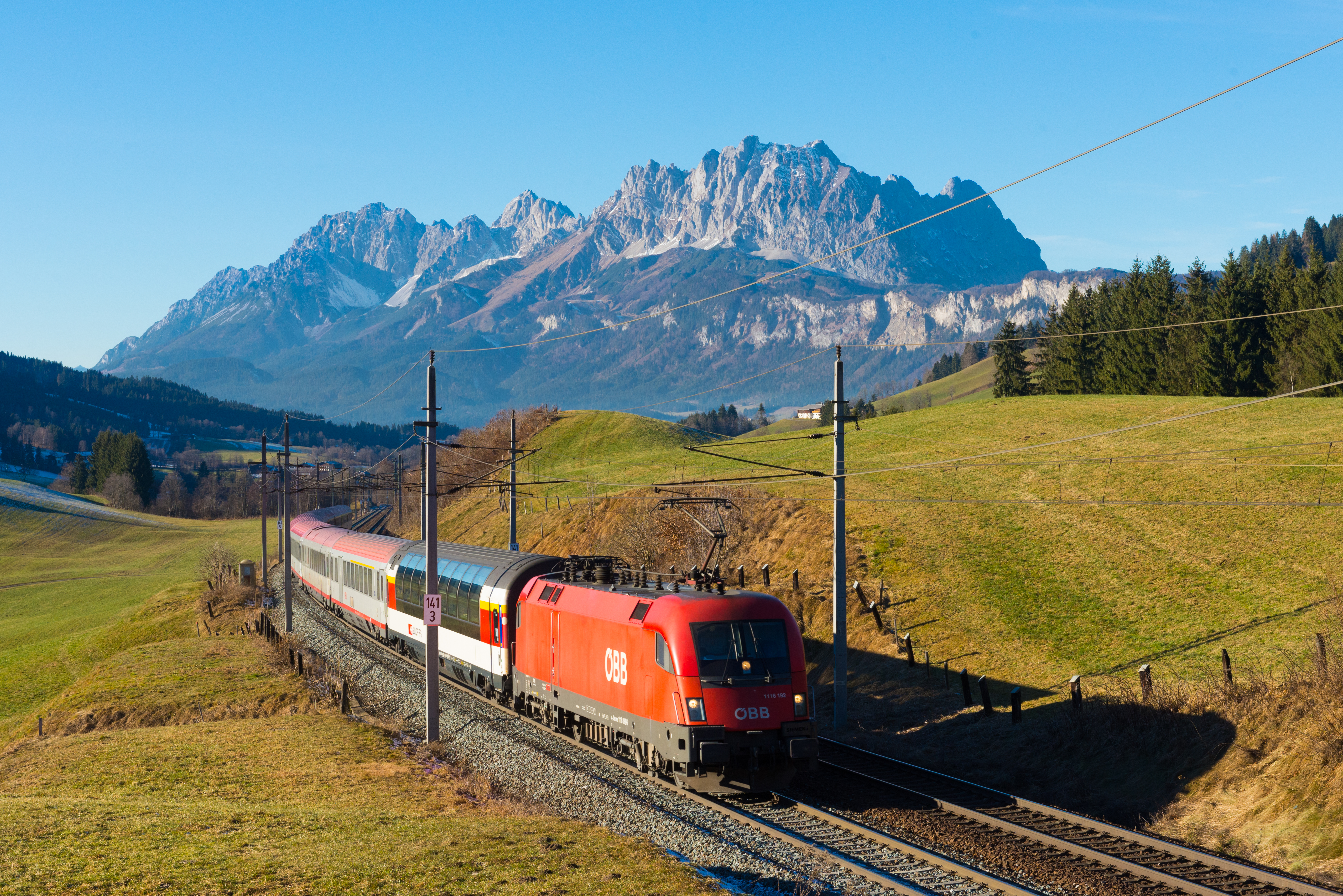 EC 163 „Transalpin“ passes the Kaisergebirge on its route to Graz. The photo was taken near Km 141.3 in the municipality of Fieberbrunn.